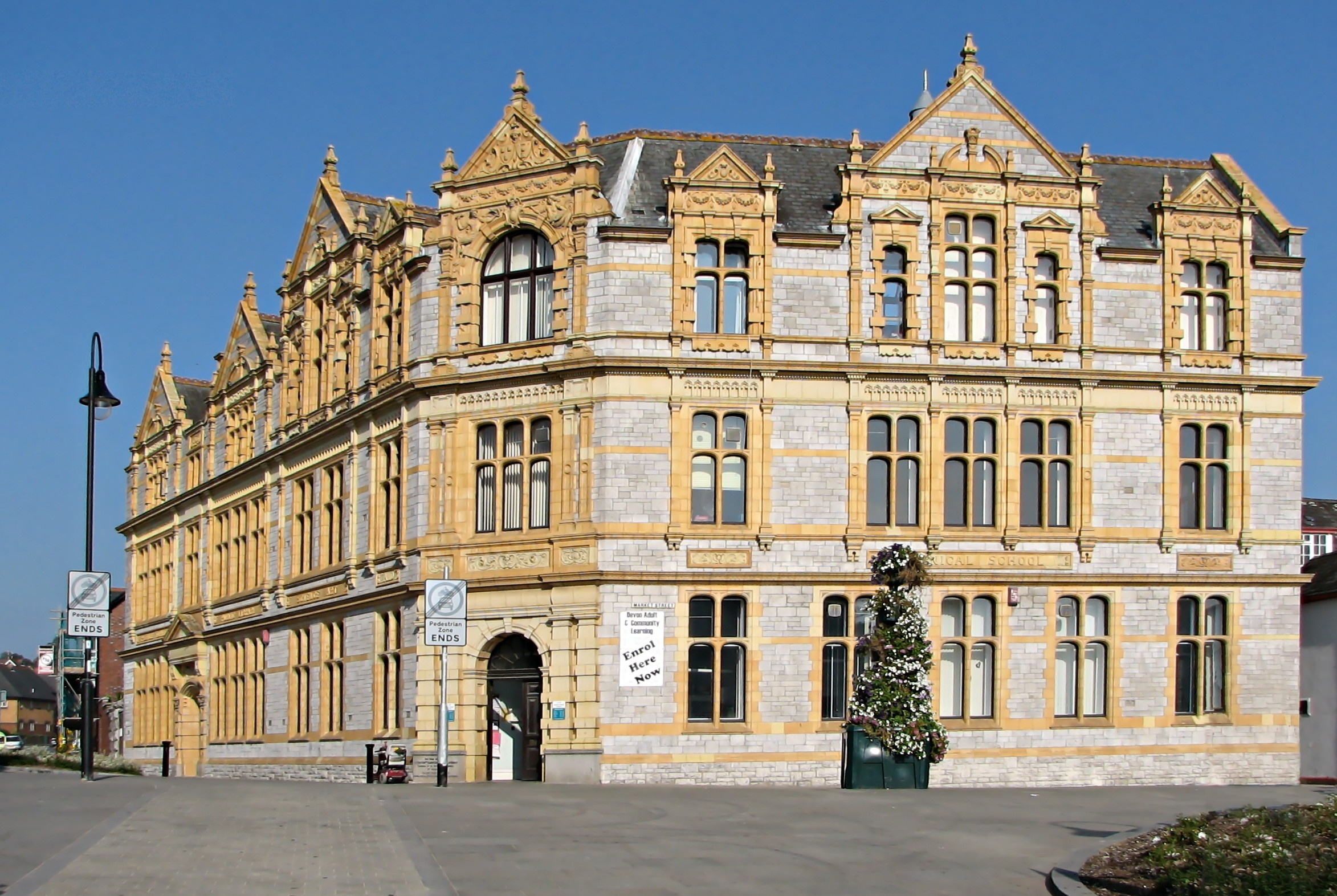 The Passmore Edwards Public Library in Newton Abbot, Devon, England. Opened in 1904, it was designed by the Cornish architect Silvanus Trevail in elaborate Renaissance style making much use of terracotta mouldings.